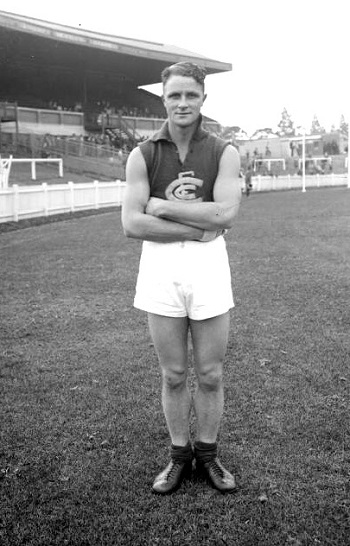 Ron Cooper from 1932-1942